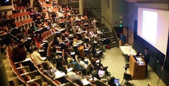 Suharlim teaching the Introduction to Decision Analysis Nanocourse to 130 participants including graduate students, researchers, faculty members, and health professionals at the Harvard Medical School (April 23, 2015)